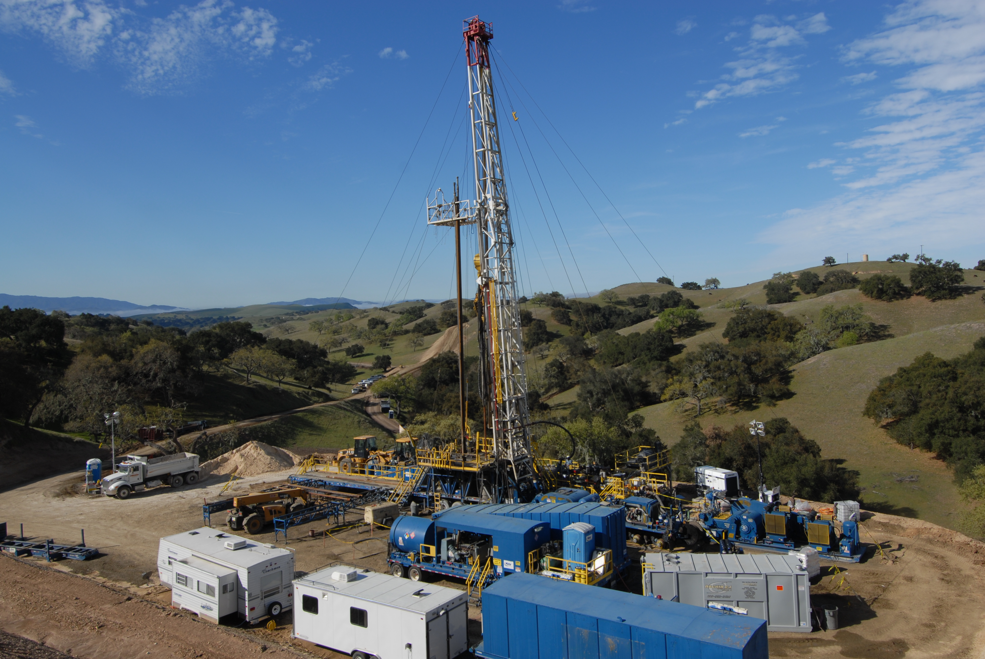 Underground Energy's Chamberlin 3-2 well targeted the never-penetrated, lower sub-thrust block the Company recently discovered and experienced drilling rods thickly coated with heavy oil.